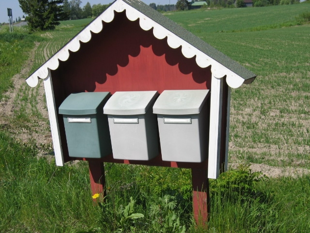 Mailboxes in Tevaniemi, Finland